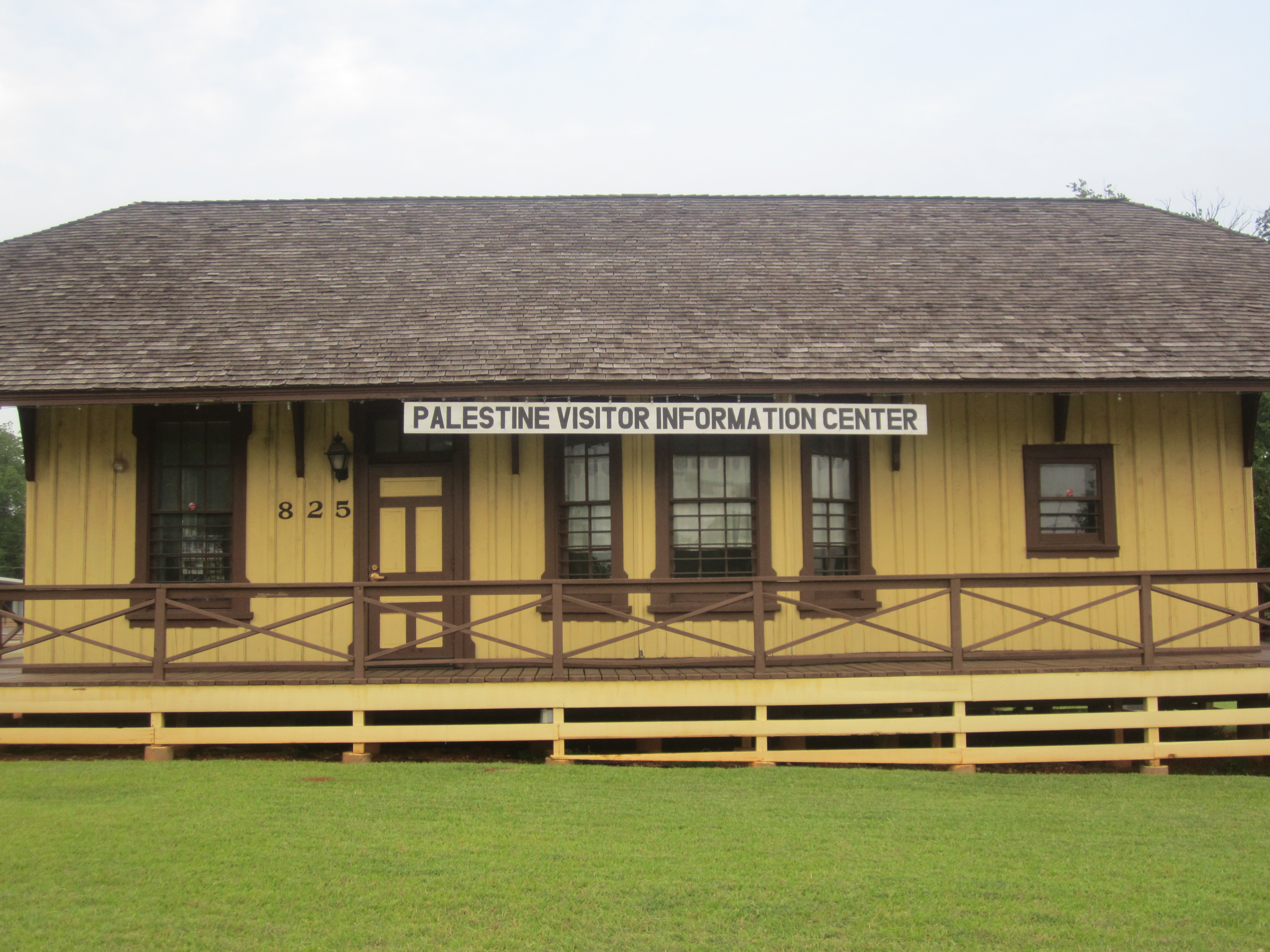 I took photo of Palestine, TX, Visitor Information Center with Canon camera.